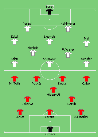 Worldcup Final 1954. Germany vs. Hungary 3 - 2.